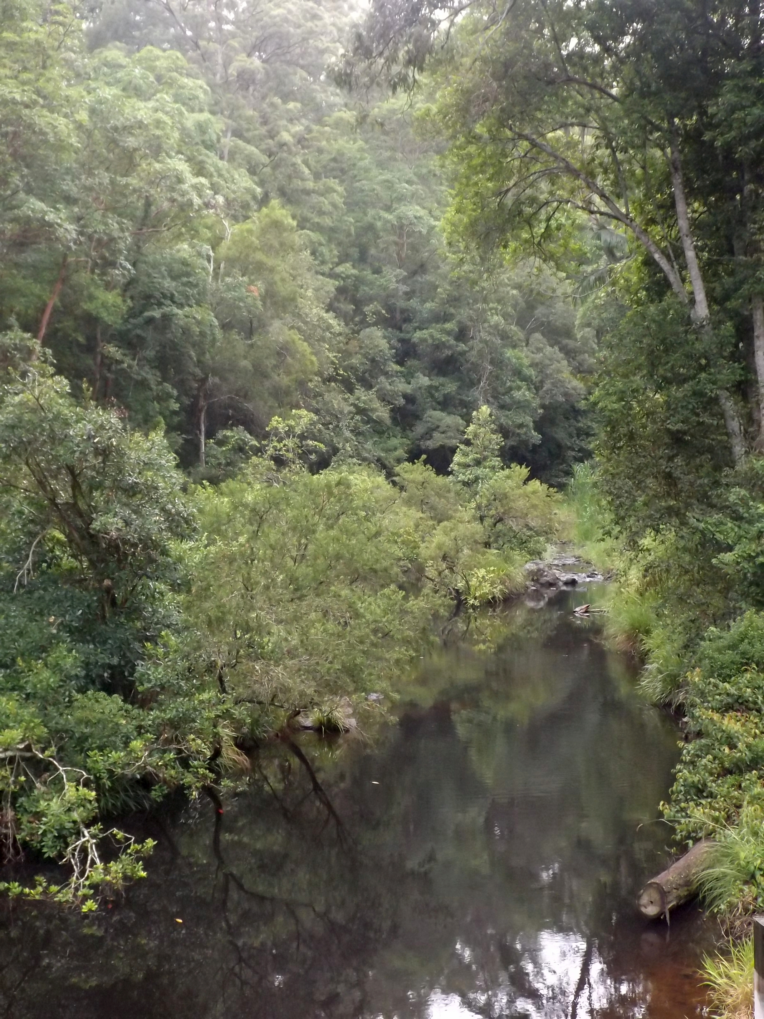 Photo of Mudgeeraba Creek at Austinville, City of Gold Coast, Queensland, Australia. View is looking south (upstream) from a crossing on Austinville Road.